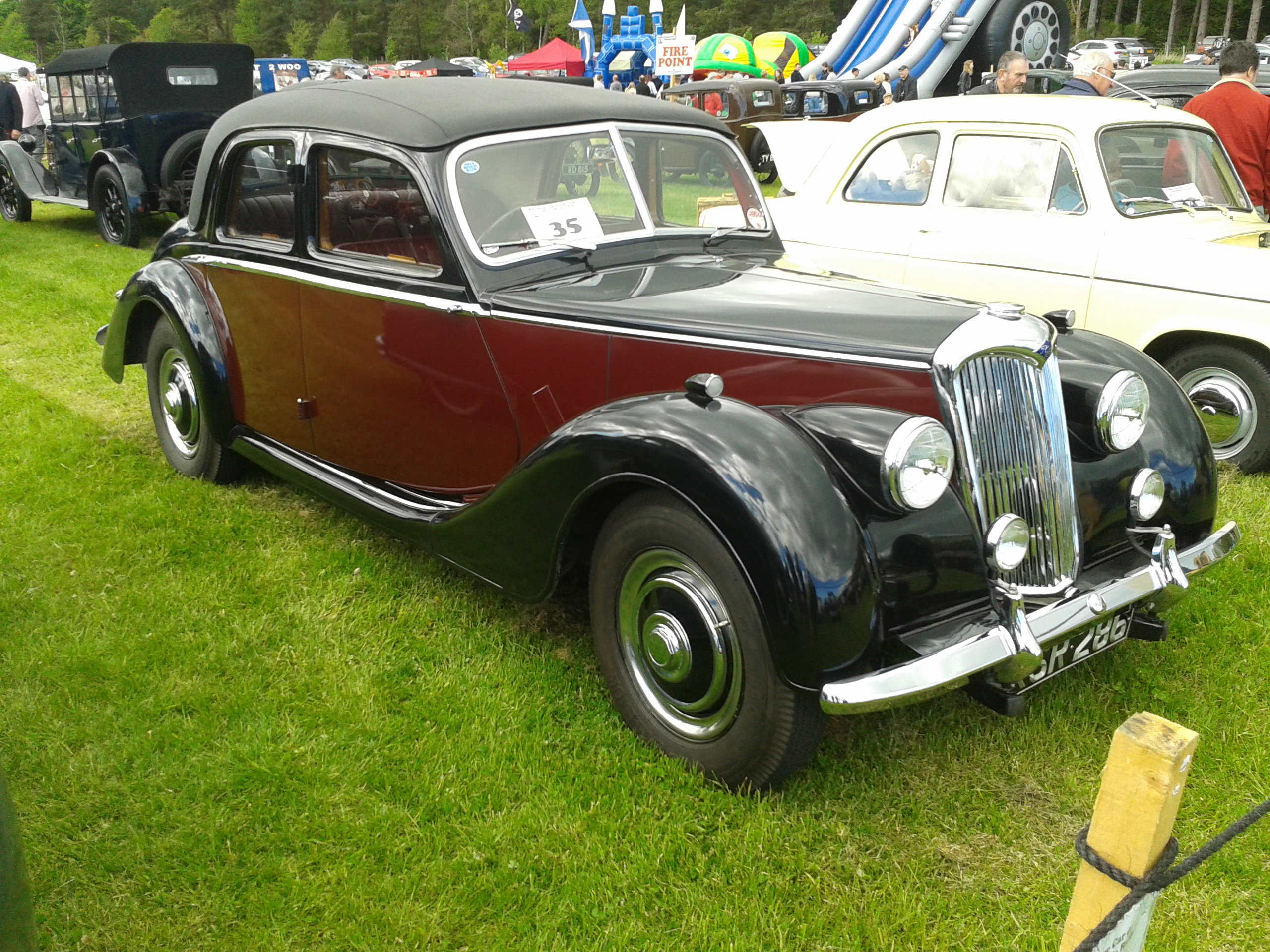 Riley 1½ RME saloon (DVLA) first registered 29 July 1953, 1496cc Grampian Transport Museum, Alford Aberdeenshire, 24th July 2011.